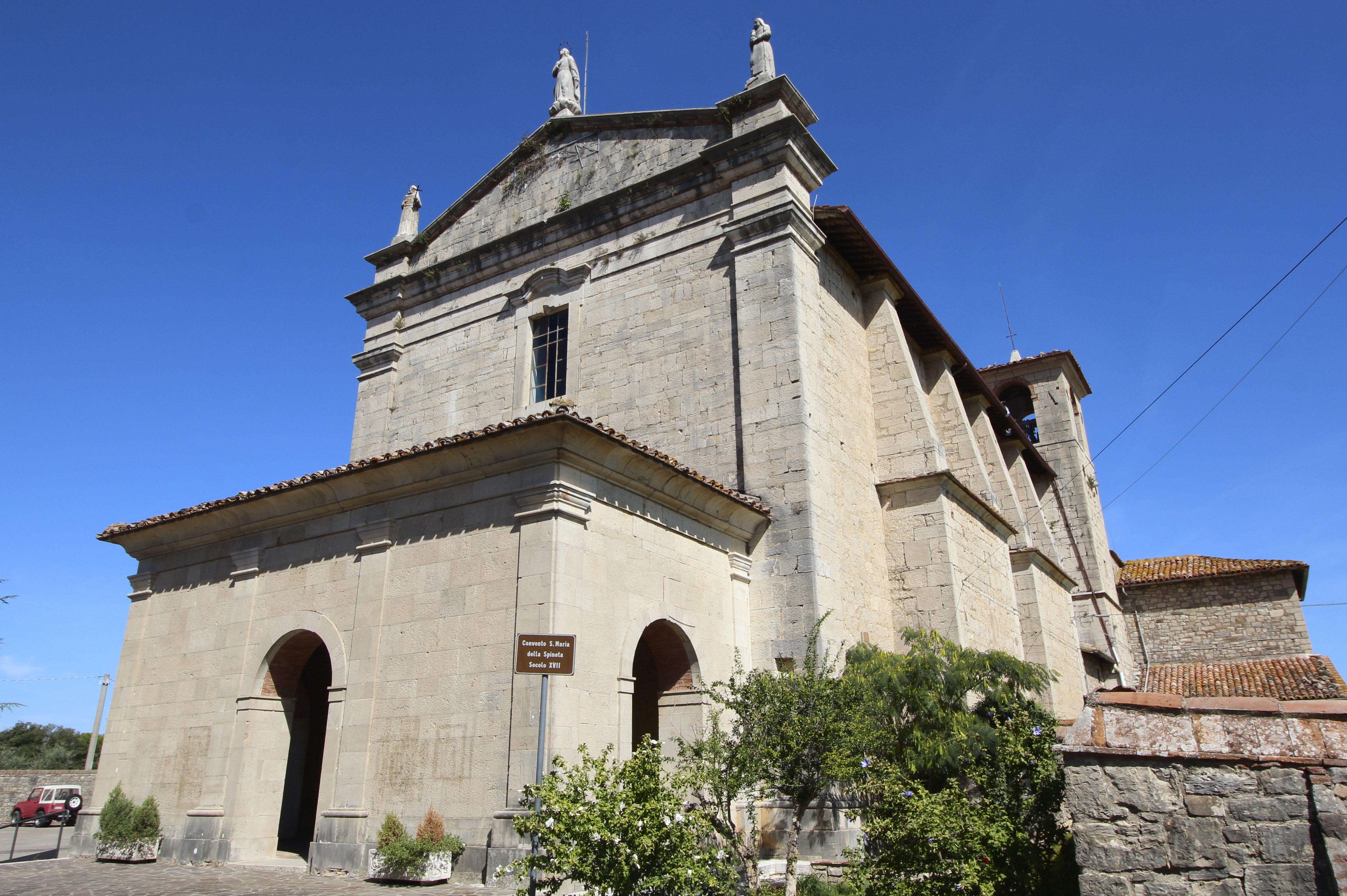 church and convent Santa Maria della Spineta (Santa Maria Assunta), Spineta, hamlet of Fratta Todina, Province of Perugia, Umbria, Italy